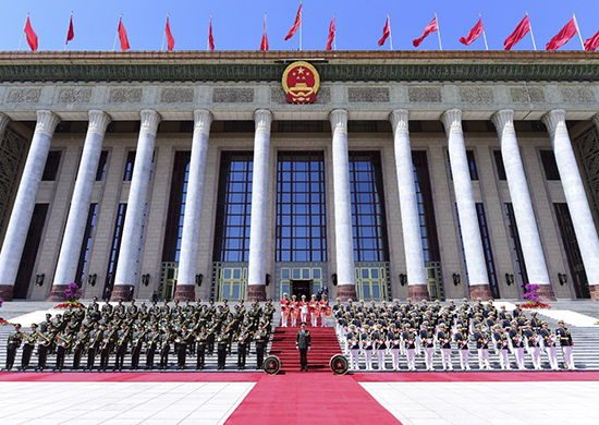 Оркестр Народно-освободительной армии Китая исполнит на фестивале «Спасская башня» Танец с саблями